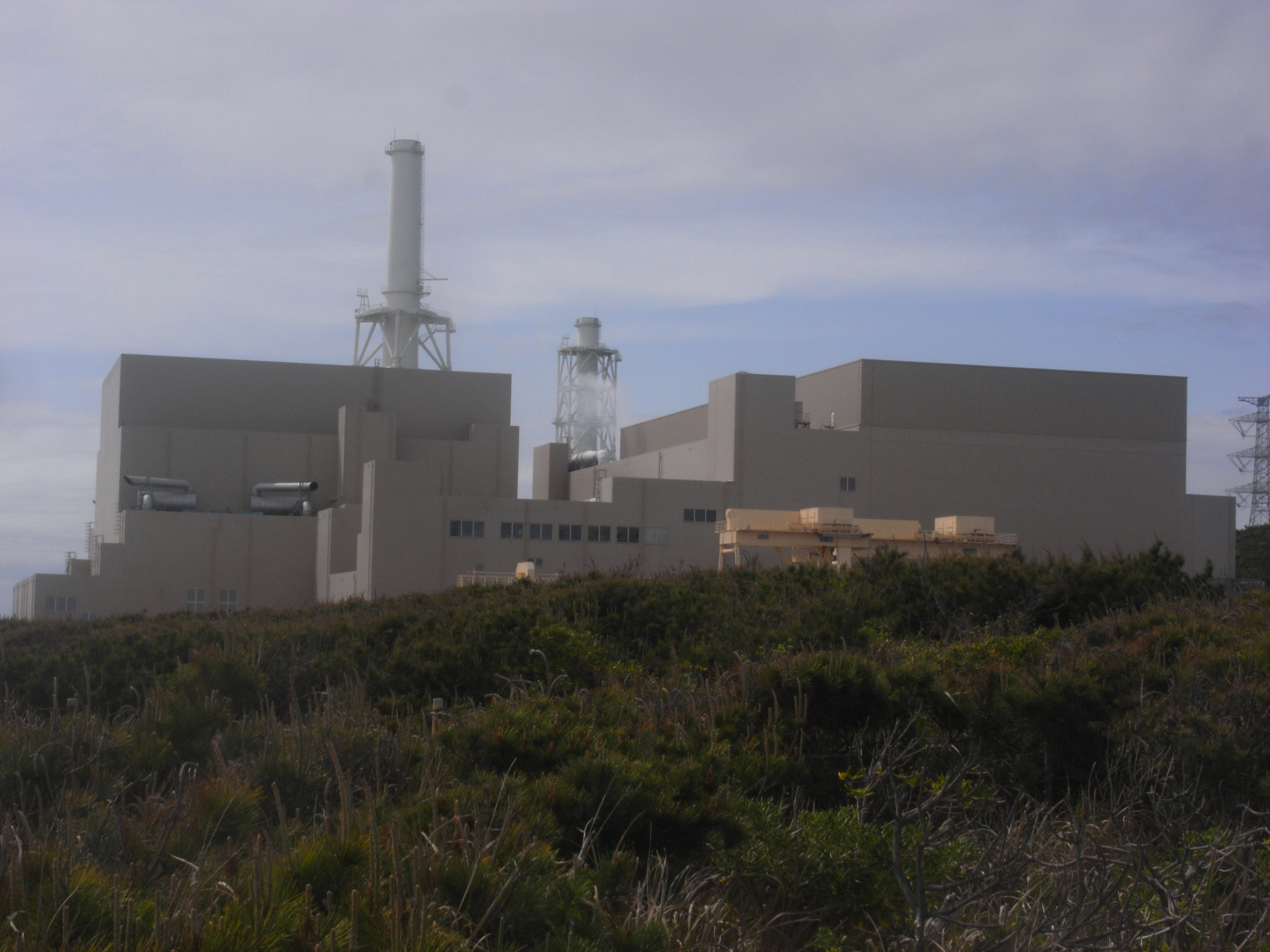 Hamaoka, Unit five, may 2011